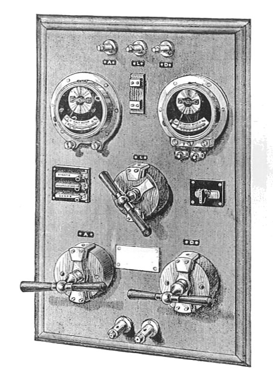 Main switchboard, c. 1888 (Forty Years of Electrical Progress).jpg